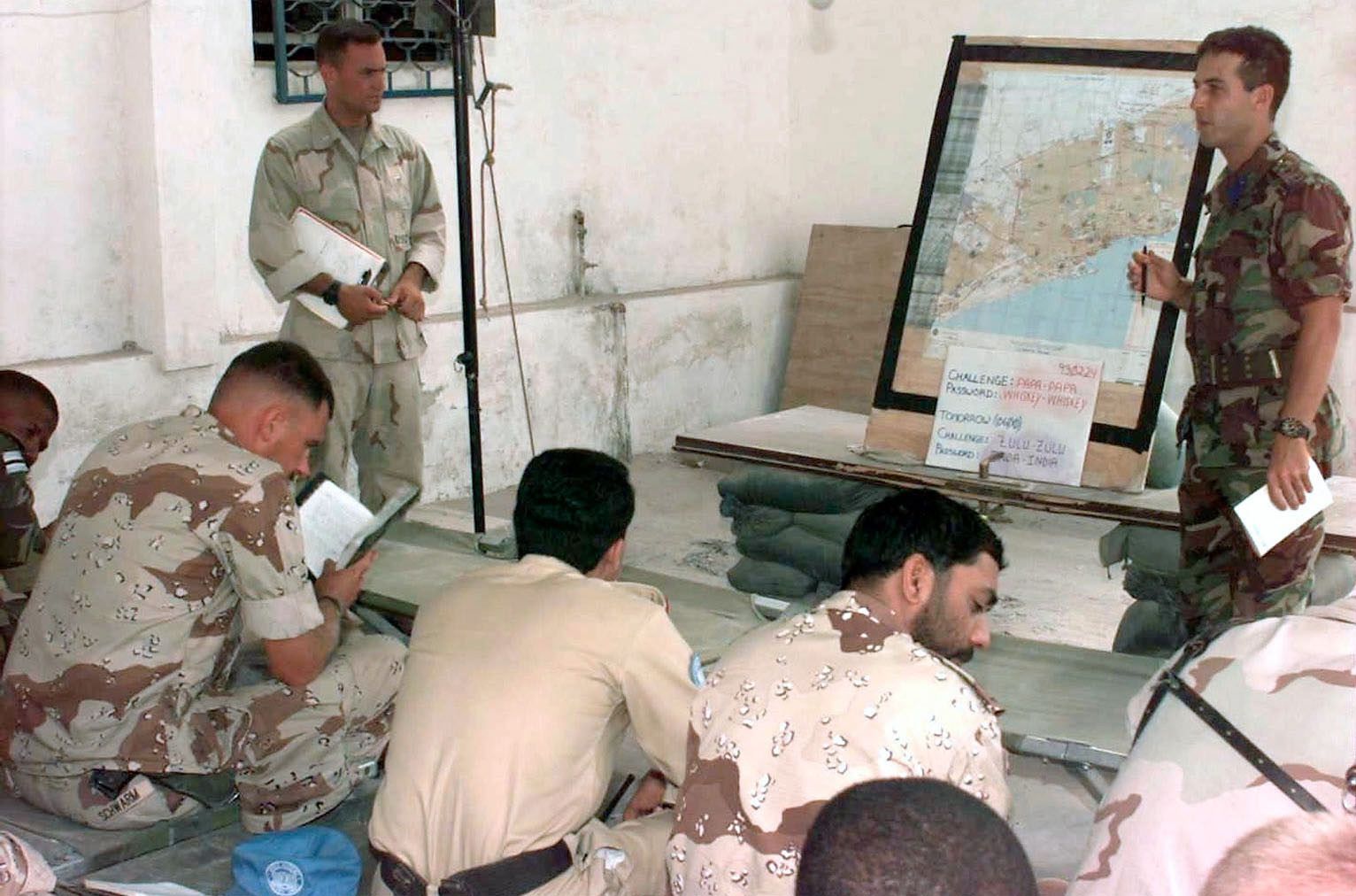 A shot over the shoulders of several soldiers from different nations as they listen to a briefing. A daily Coalition Security Briefing takes place at Mogadishu Airport at 1000 hours. The 3rd of the 11th US Marines host the briefing and serve as a central collection point for security related information. A Turkish Security Officer faces the group and briefs about events in the Turkish Sector of Mogadishu. This mission is in direct support of Operation Restore Hope